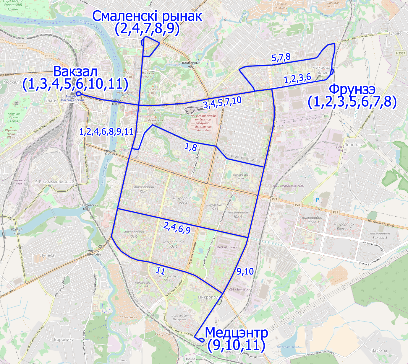 Trolleybus map of Viciebsk (Belarus)